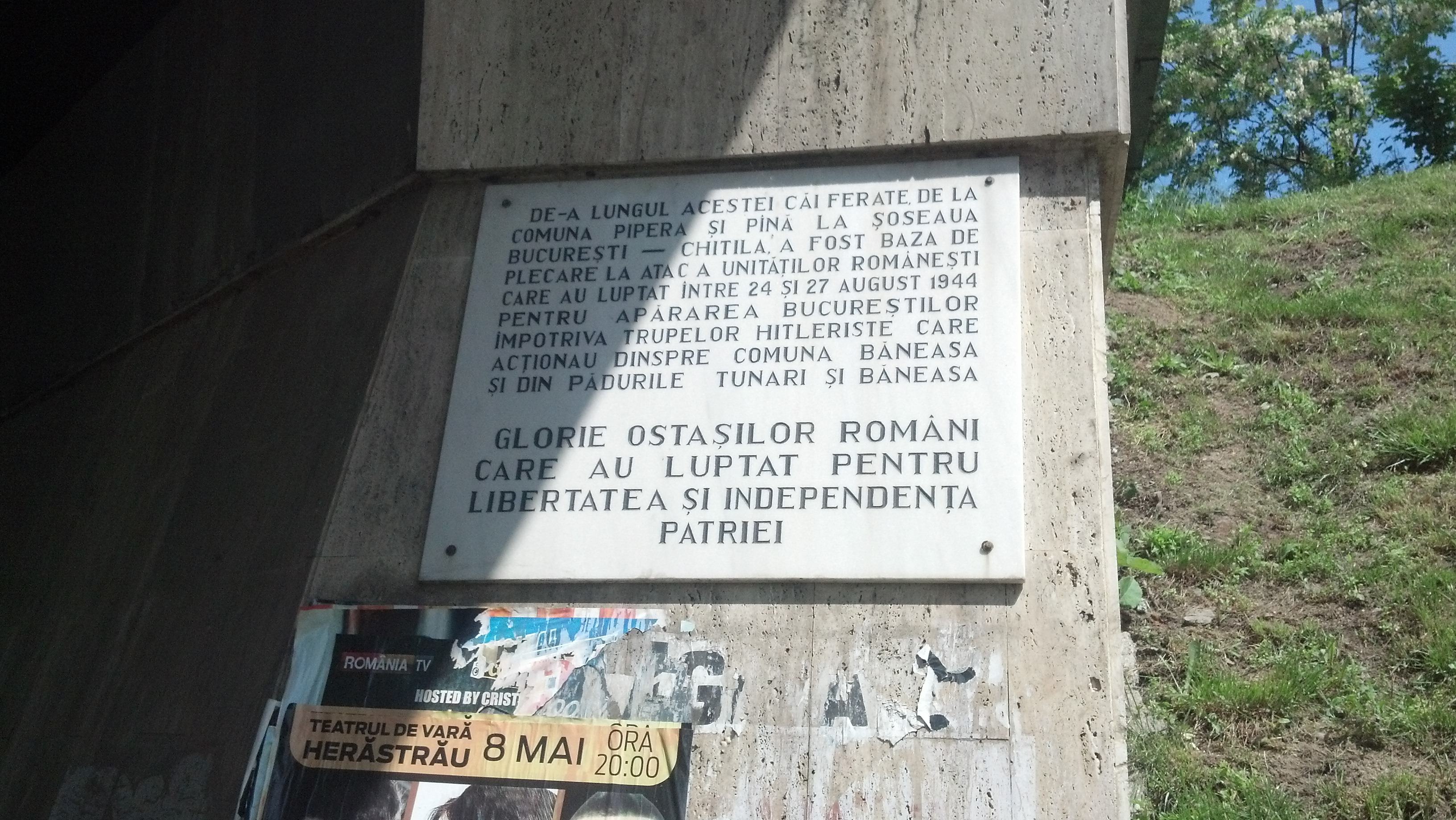 Commemorative plaque for WWII Romanian soldiers that defended Bucharest near Miorița bridge, August 24-27th 1944Română: Placă comemorativă - amplasată la Podul Miorița - pentru militarii români din Al Doilea Război Mondial, care au apărat Bucureștiul în 24-27 august 1944 (după întoarcerea armelor împotriva Germaniei naziste).